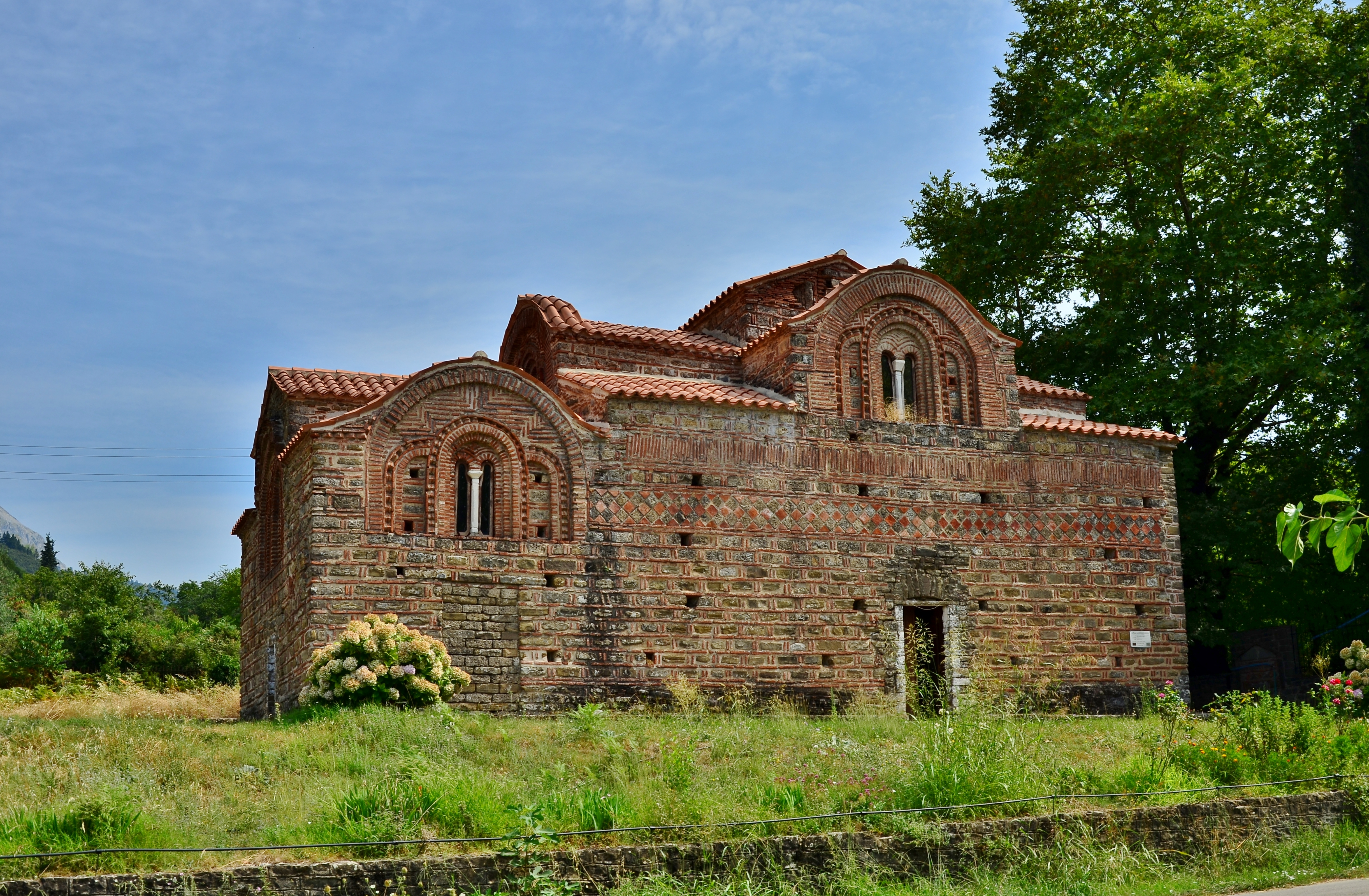 Panagia Vella monastery (Red Church), near Voulgareli